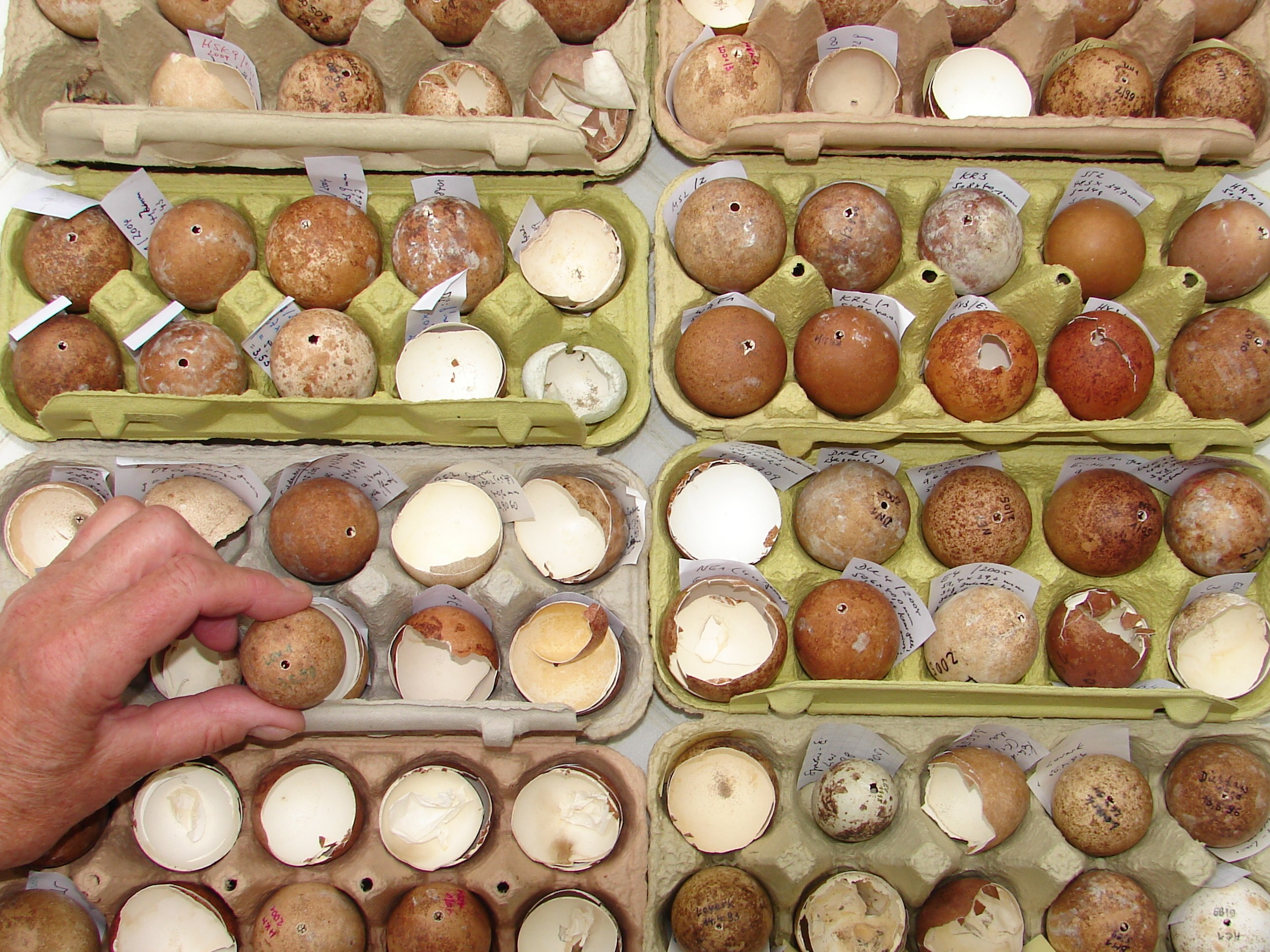 A part of the egg collection of the "Arbeitsgemeinschaft Wanderfalkenschutz Nordrhein-Westfalen" (AGW-NRW, Working group Peregrine protection of North Rhine-Westphalia). The addled or infertile eggs were collected while ringing or controlling the birds with official permit. Their contents were analysed for pesticide contamination.